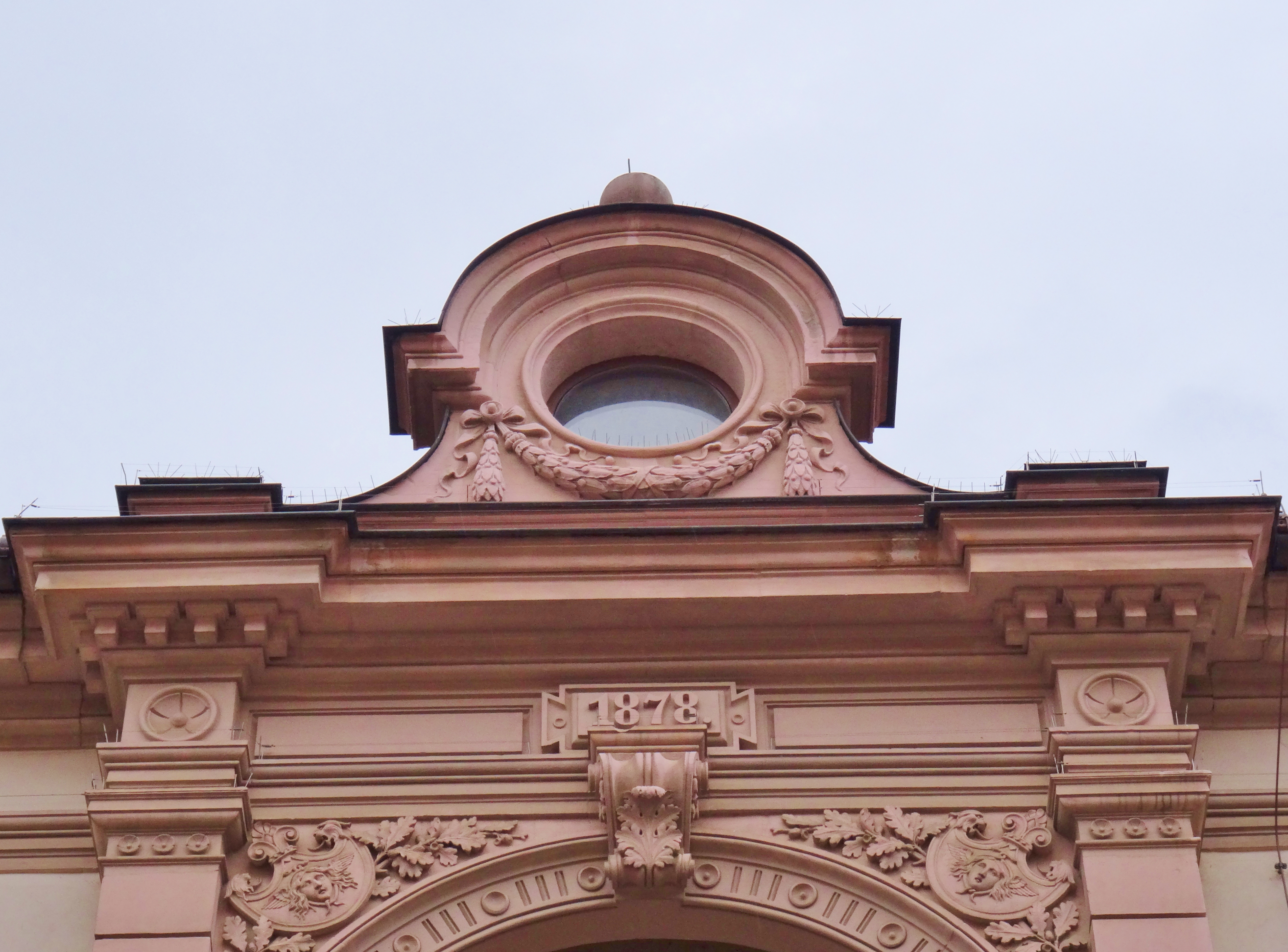 Am Markt, Pirna